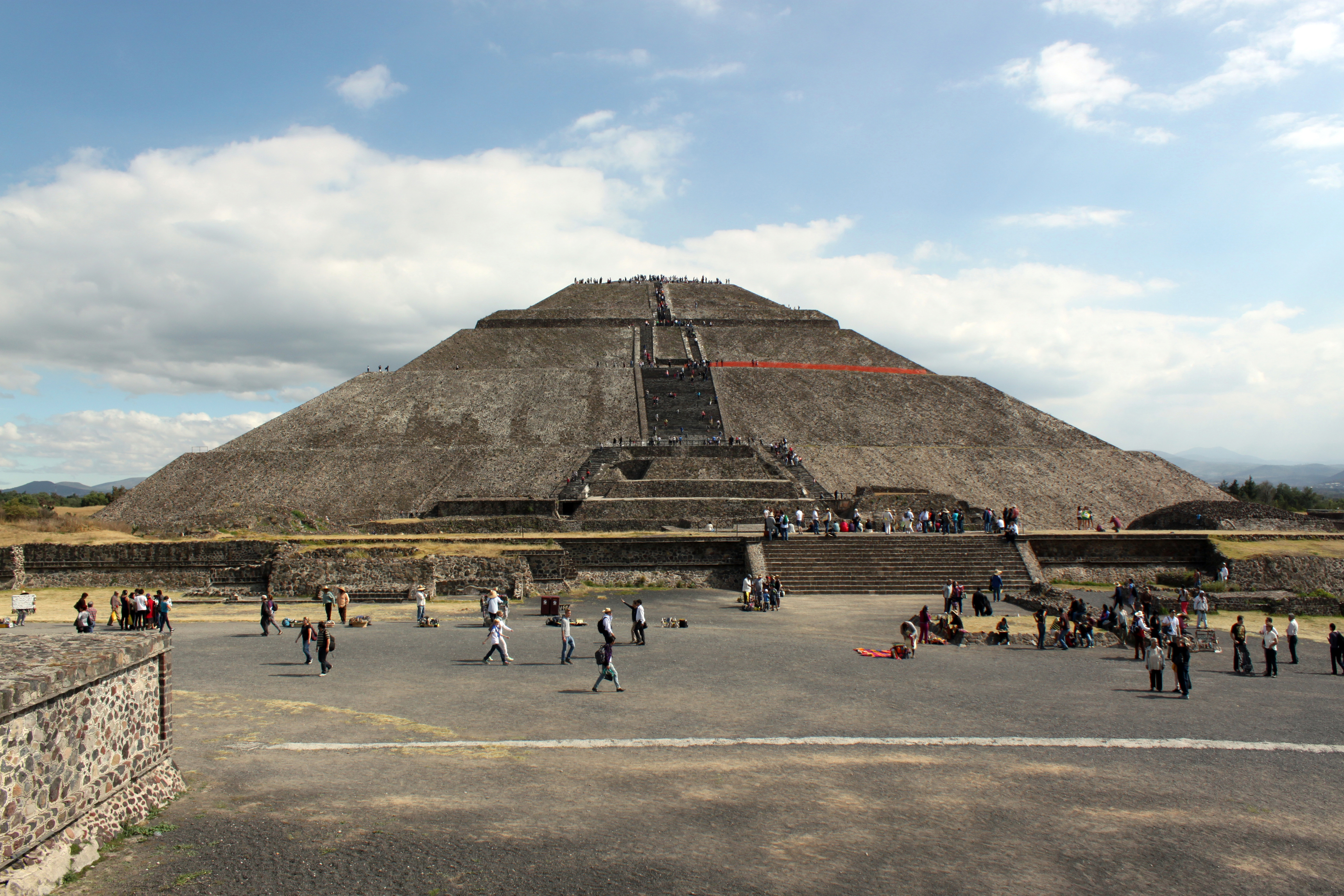 Teotihuacan: Pyramid of the Sun